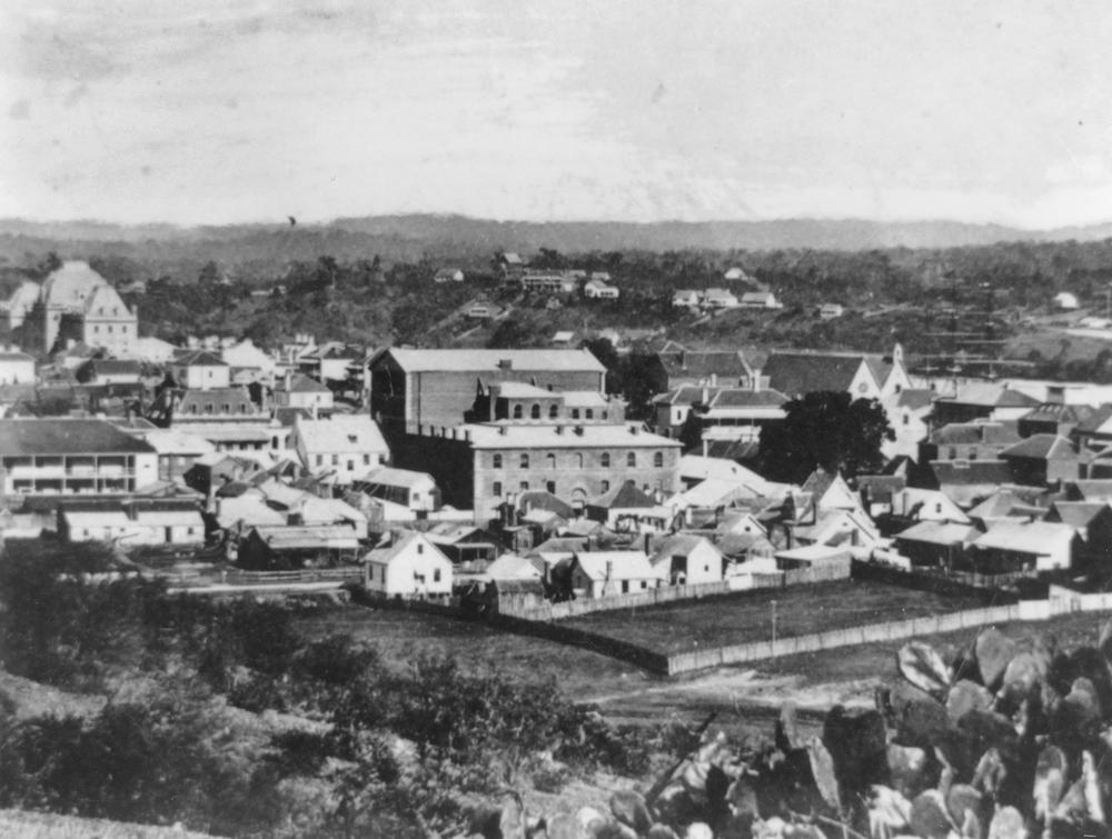 Town of Brisbane, ca. 1870.